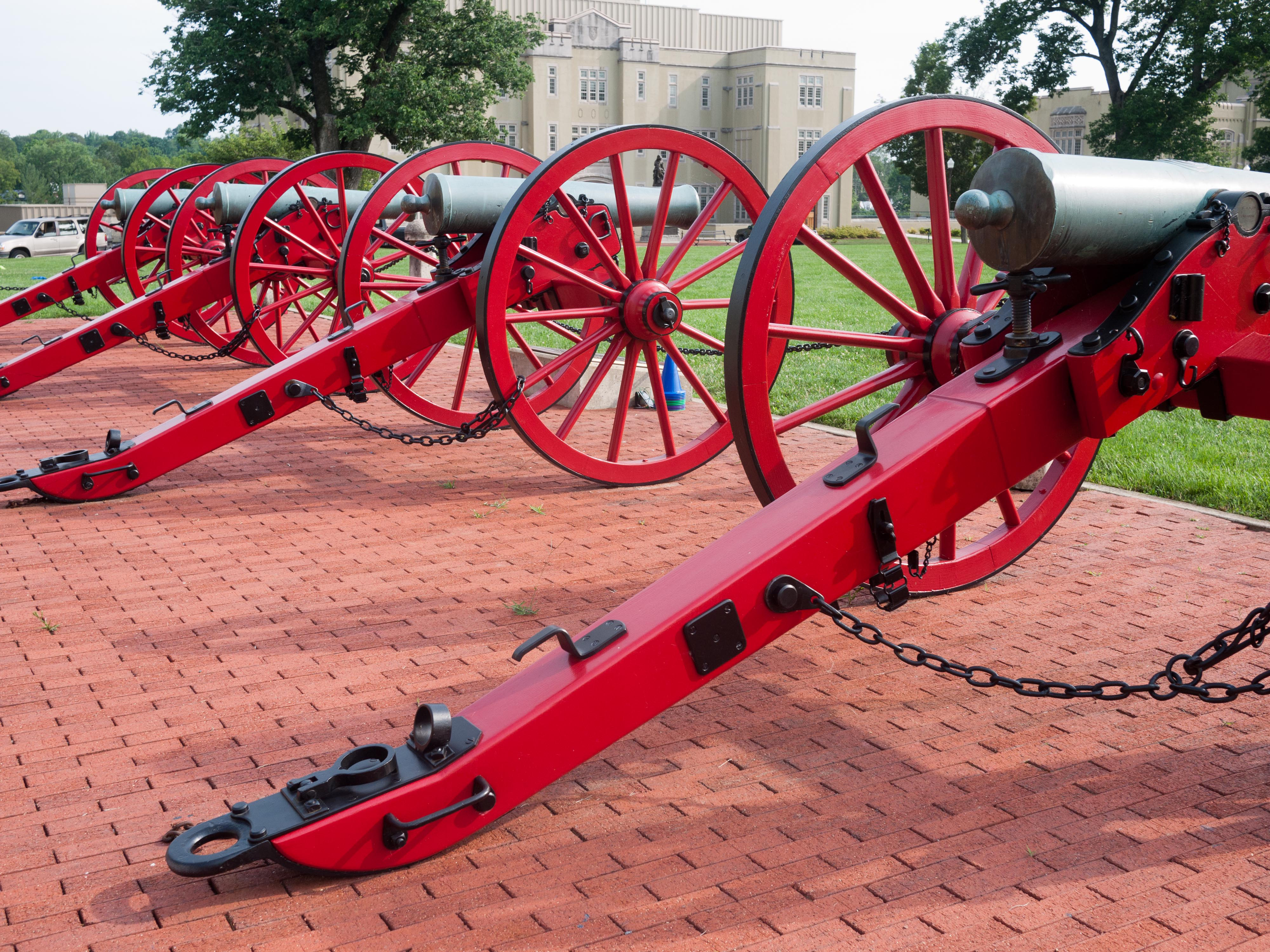 Several red cannons in front of Barracks on the campus of the Virginia Military Institute.